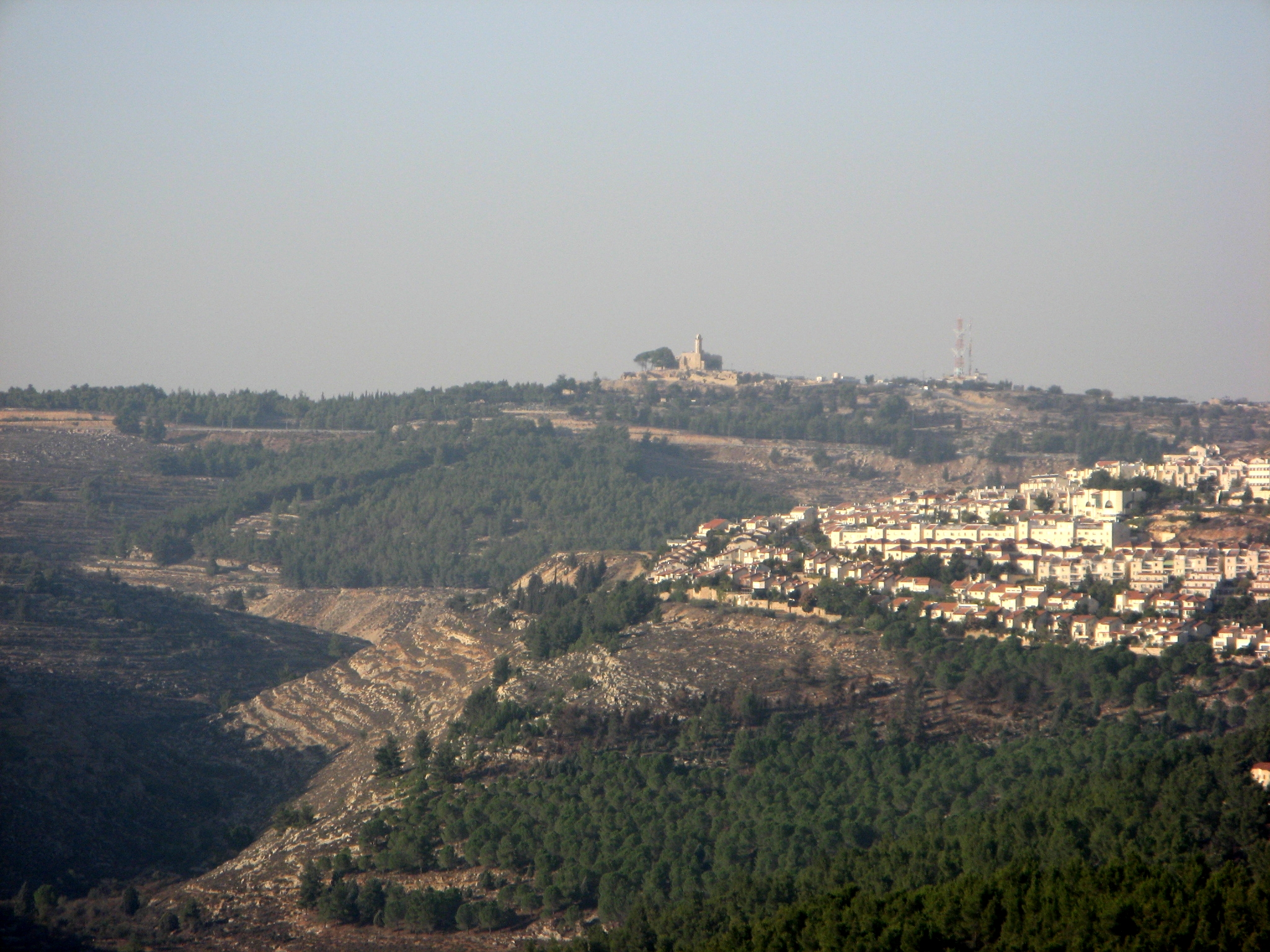 Nebi Samuel taken from entrance to Jerusalem. Clearly sticks out on the horizon